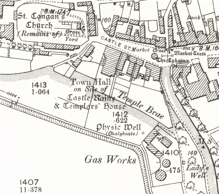 Map detailing the site of a former castle and Templar house in Turriff.